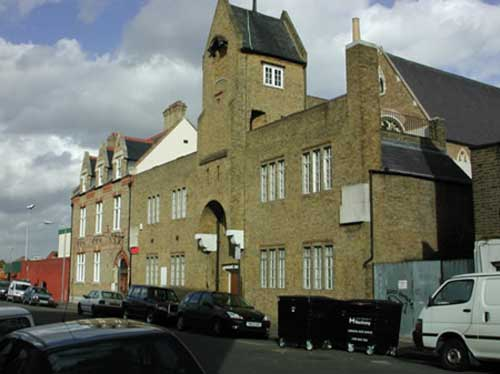 Former 59 Club meeting premises owned by the Church at Yorkton Street, Hackney, London, United Kingdom